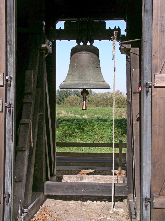 Wrist, Schleswig-Holstein, Germany: church of Stellau, bell, photo 2007